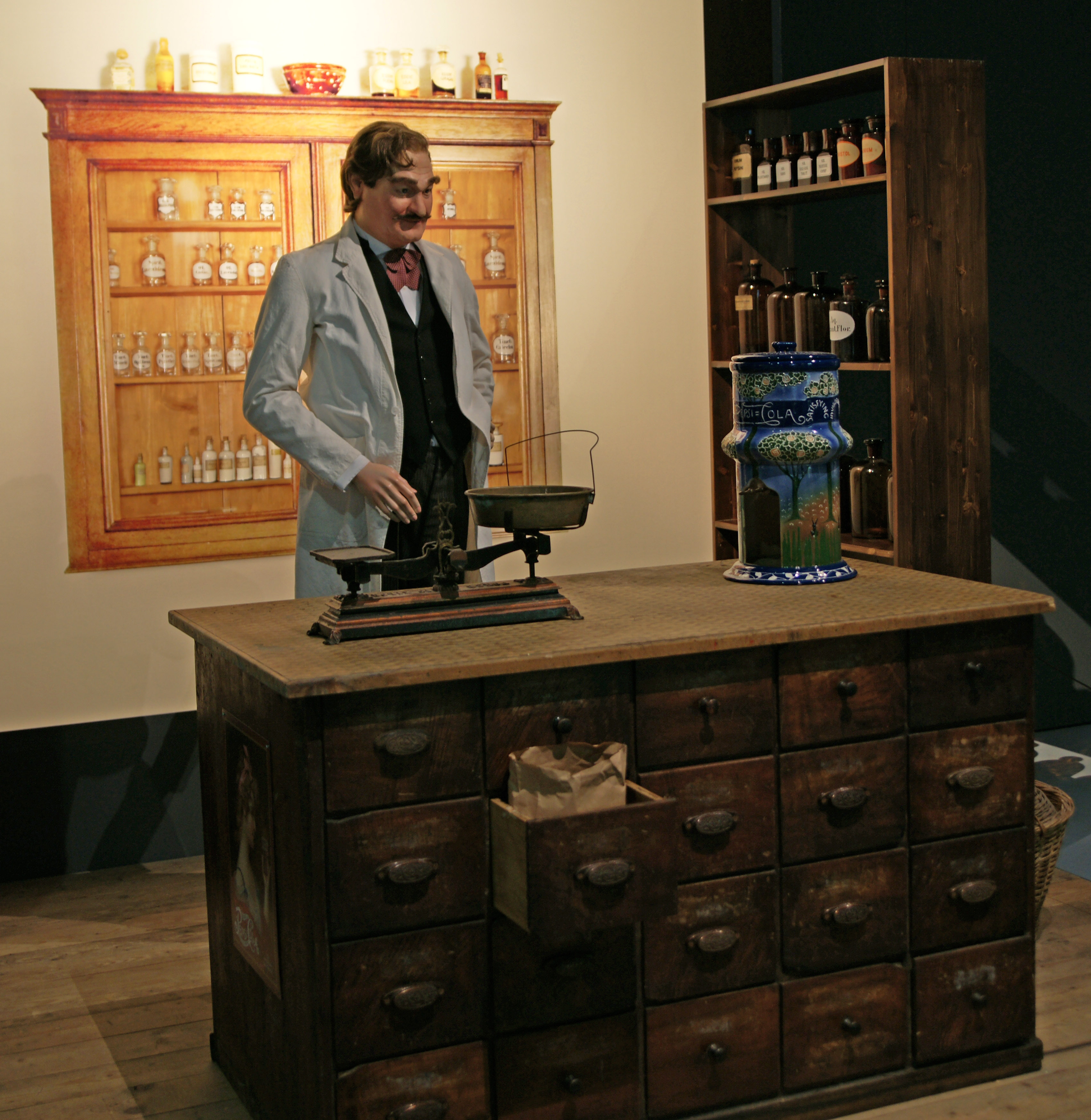 The drugstore of Caleb Bradham, inventor of Pepsi, as portrayed in the "Bern New Bern" exhibition in the Historical Museum Bern.